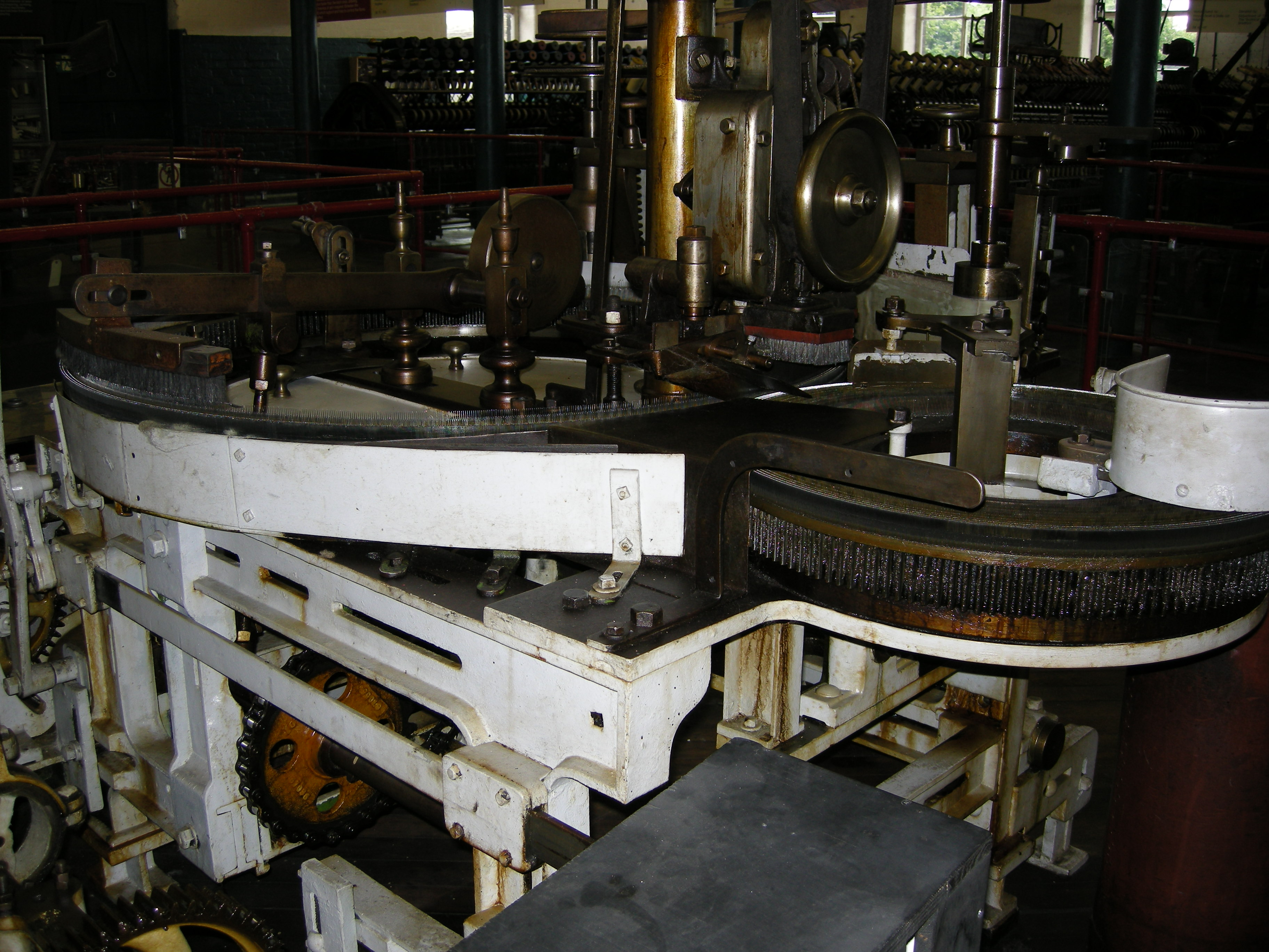 Spinning machine at Bradford Industrial Museum, Bradford, West Yorkshire, England. 53.48'.40".N; 1.43'.16".W.